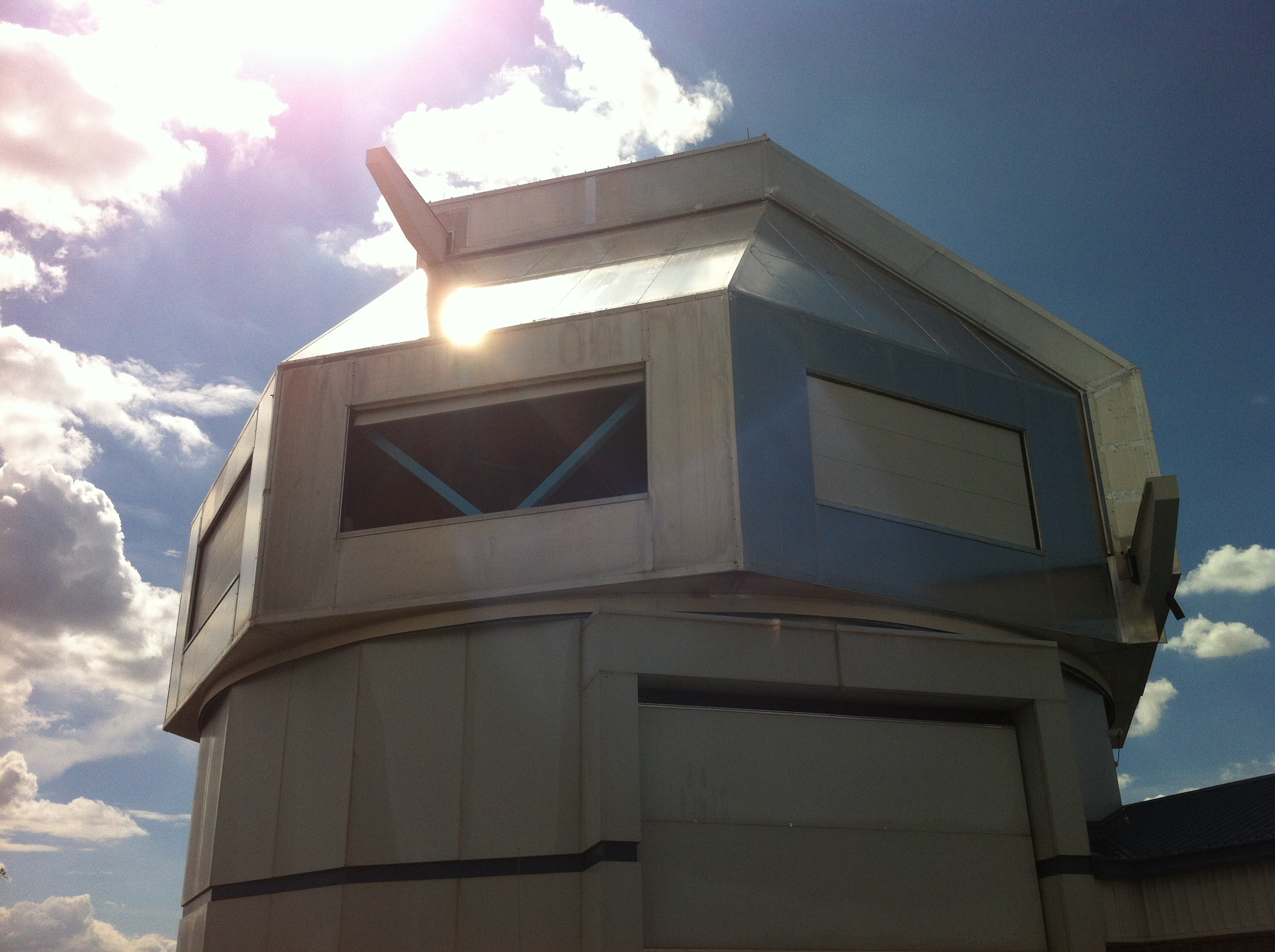 Reflecting